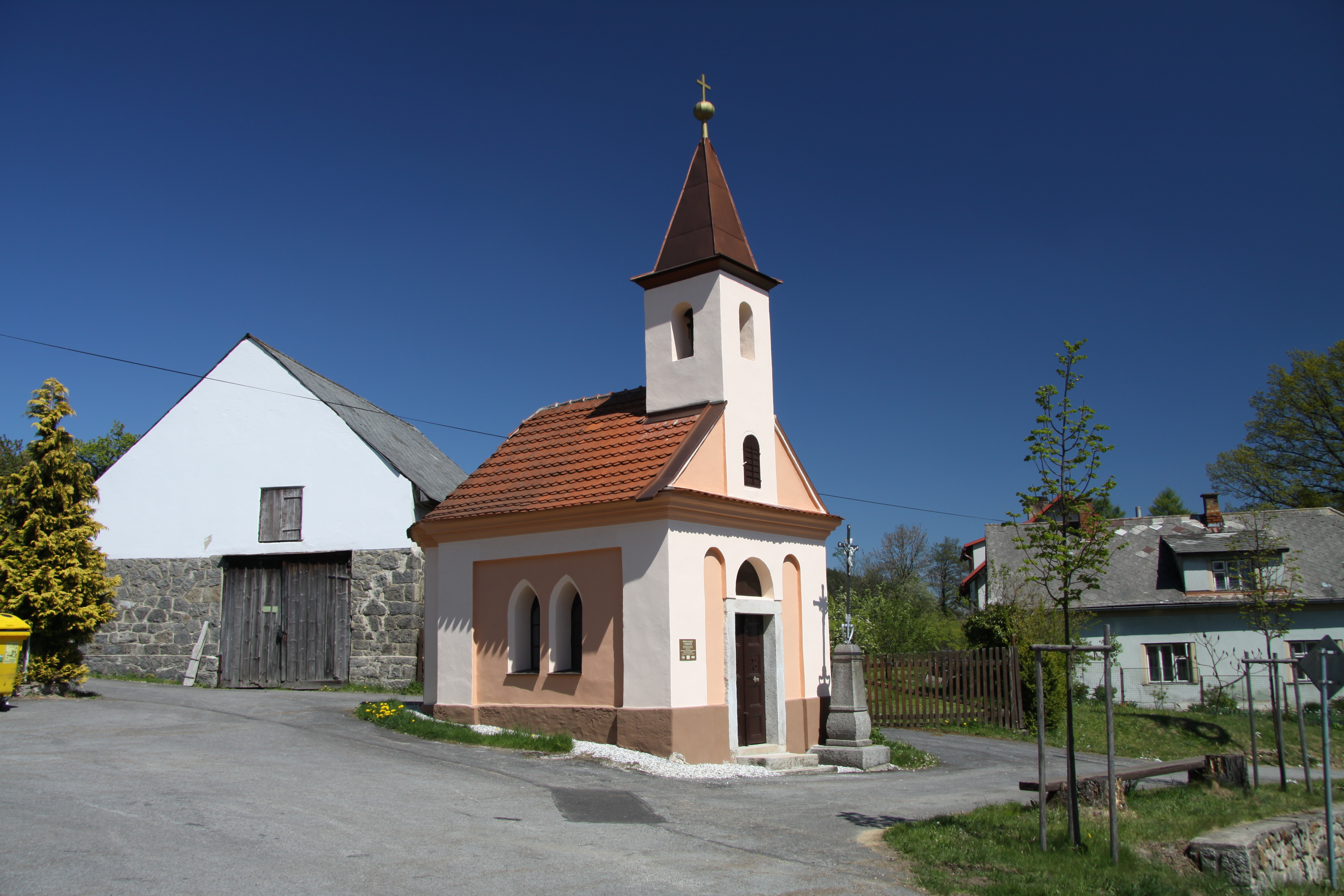 Chapel in Nespice village, part of Vacov village in Prachatice District, Czech Republic - Google Maps - Google Earth